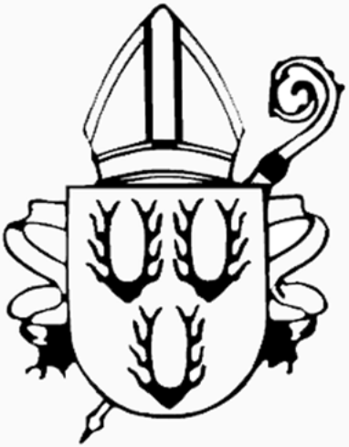 Coat of Klášter Teplá